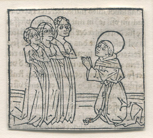 Woodcut attributed to the printer Gunther Zainer